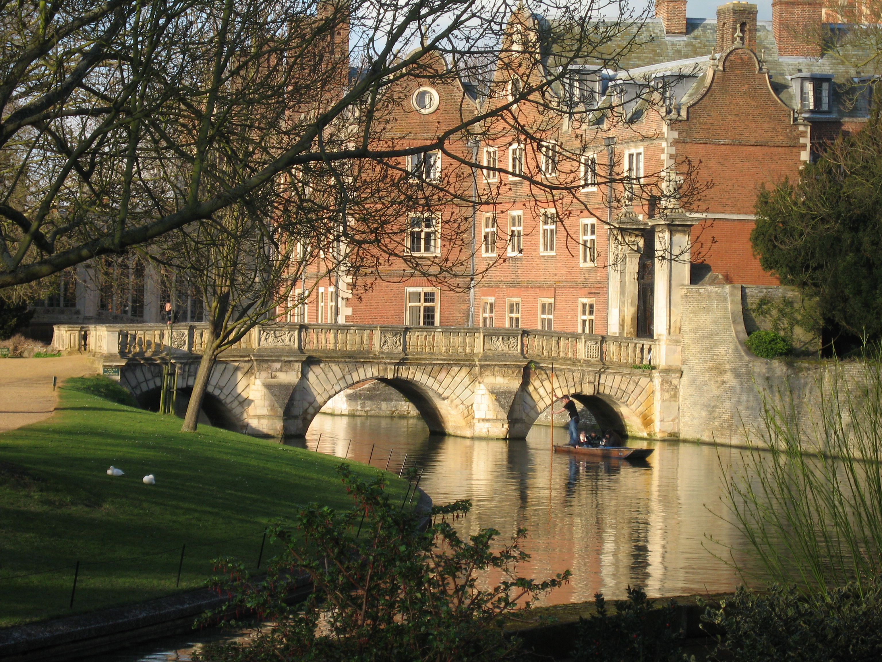 Bridge over the River Cam, Cambridge, 2008-03-31. Kitchen Bridge, part of St John's College